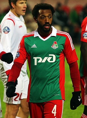 Manuel Fernandes